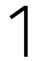 Short-twig t rune.